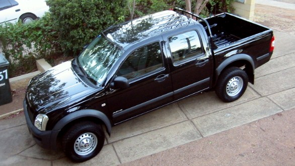 2003-2007 Holden RA Rodeo LX Crew Cab pickup, photographed in New South Wales, Australia.